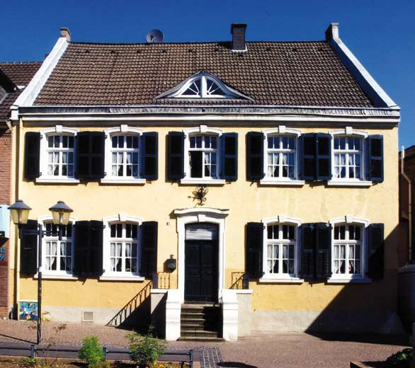 Das Haus auf der Hauptstraße Nr. 40 in Bergheim This is a photograph of an architectural monument.